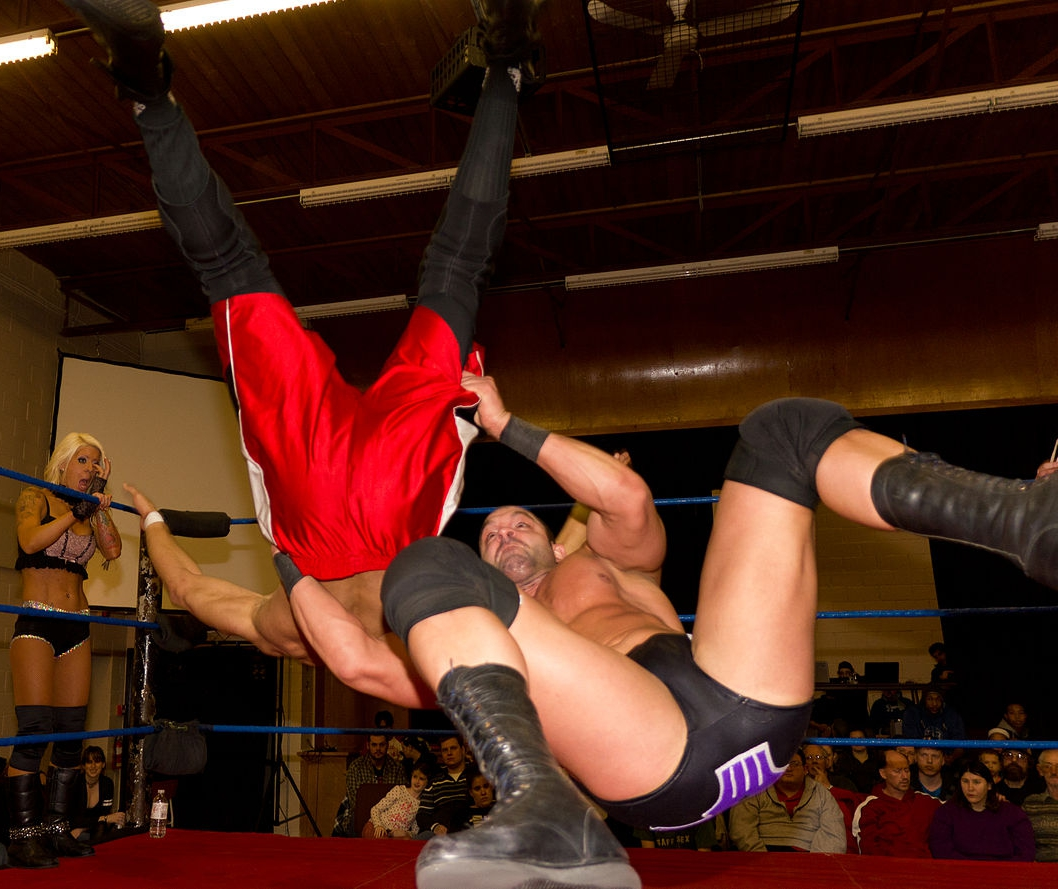 Shawn Spears (right) executing his belly to back suplex on Brent Banks